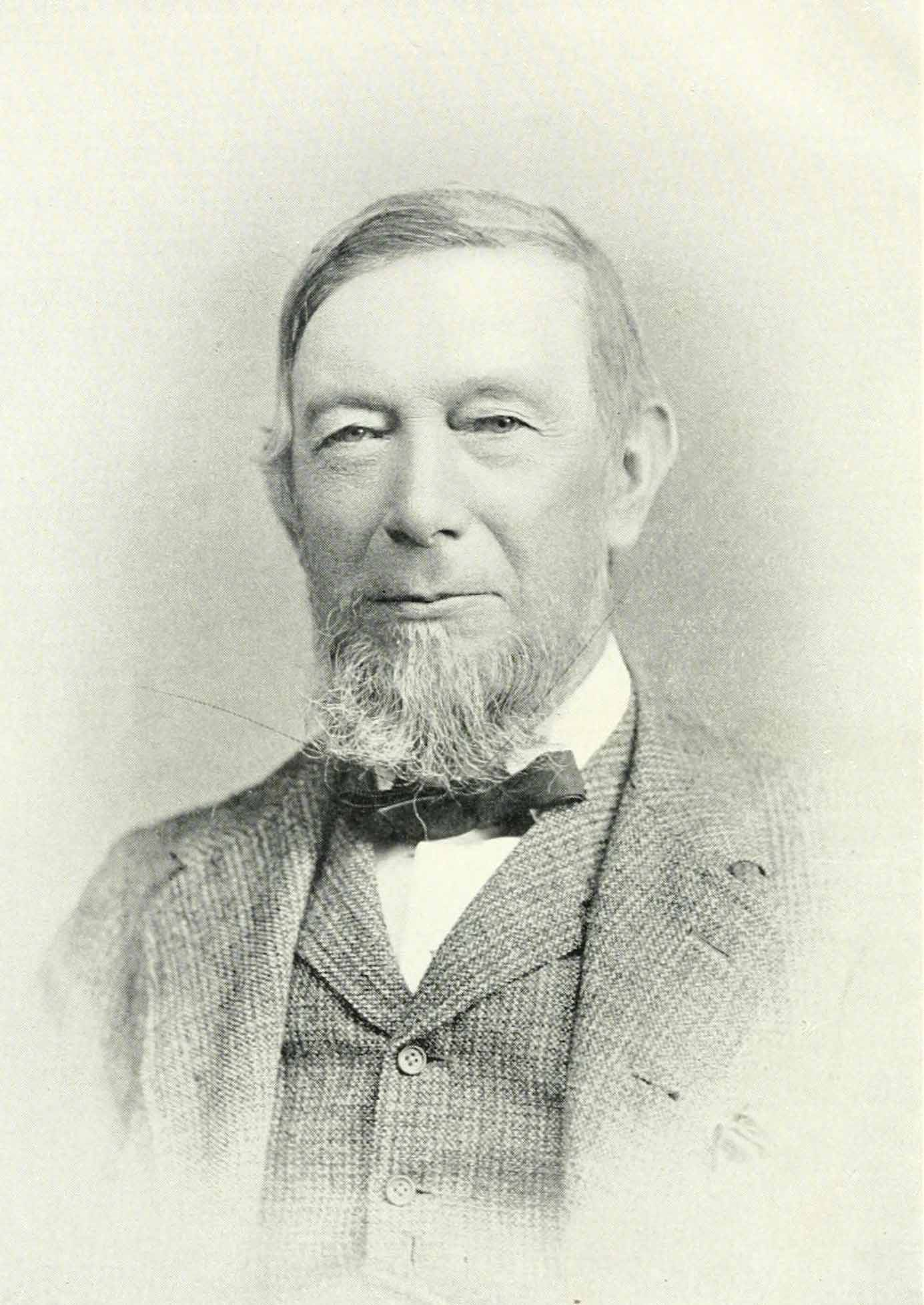 Portait of John Gilbert Baker, "Journal of botany, British and foreign", vol. 39: (1901)